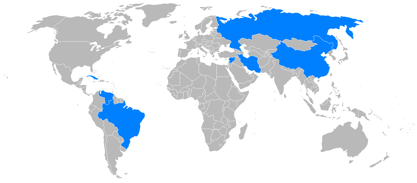 World map of Ilyushin Il-96 operators